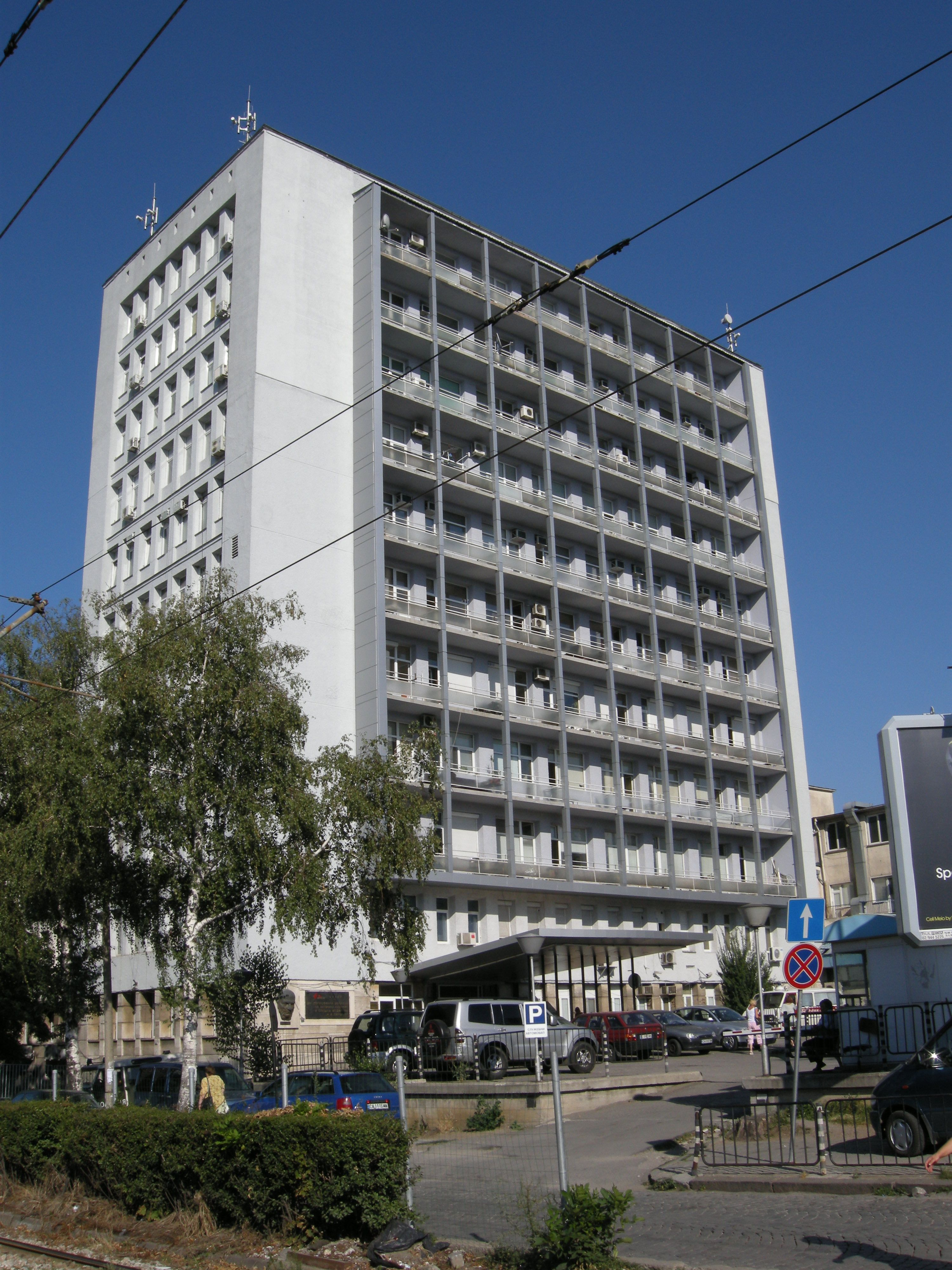 "Nikolai Ivanovich Pirogov" multiprofile hospital for active medication and emergency medicine, Sofia, Bulgaria.